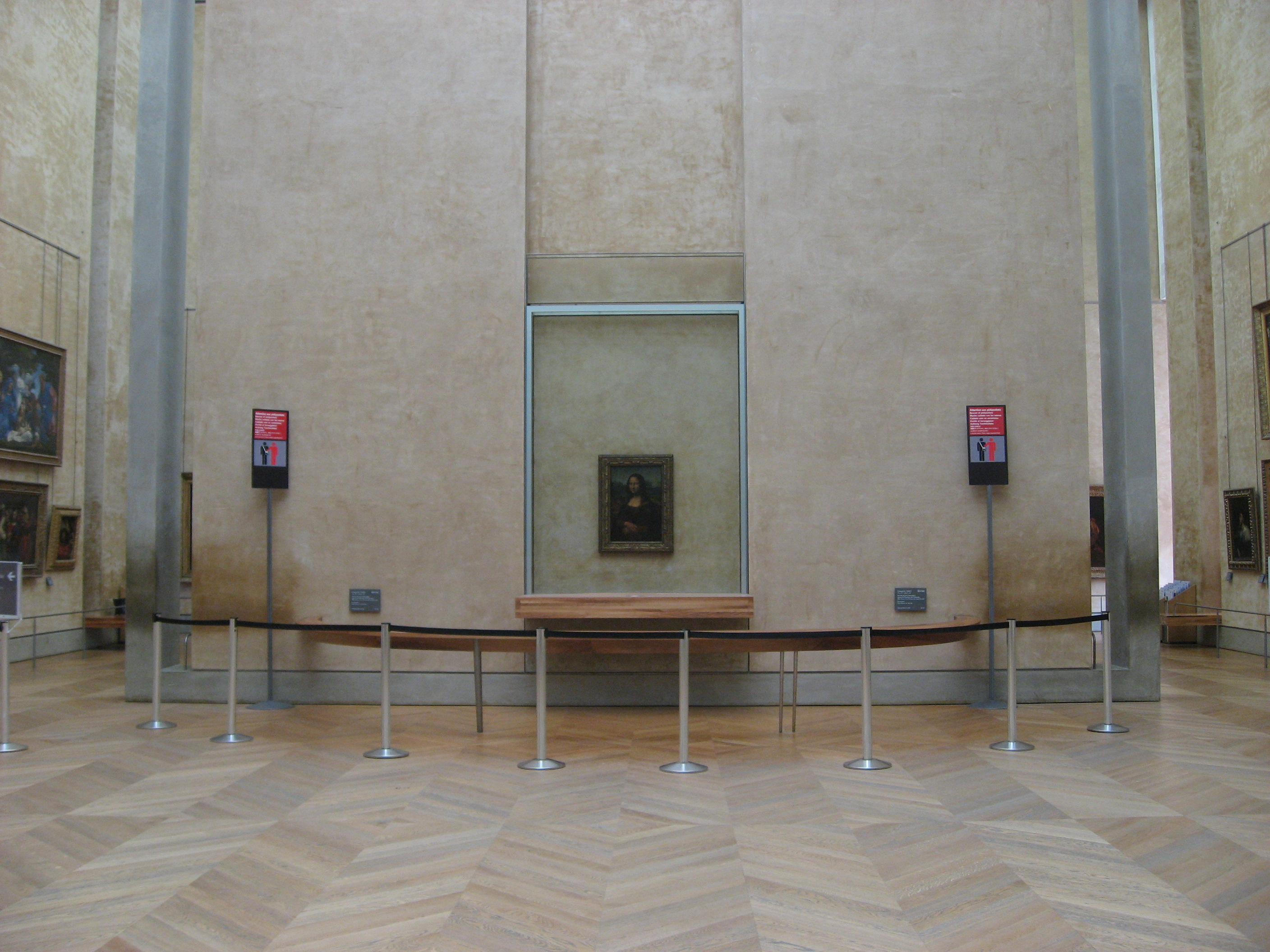 The installation of Mona Lisa in the Louvre Museum, without the crowd in front of it.